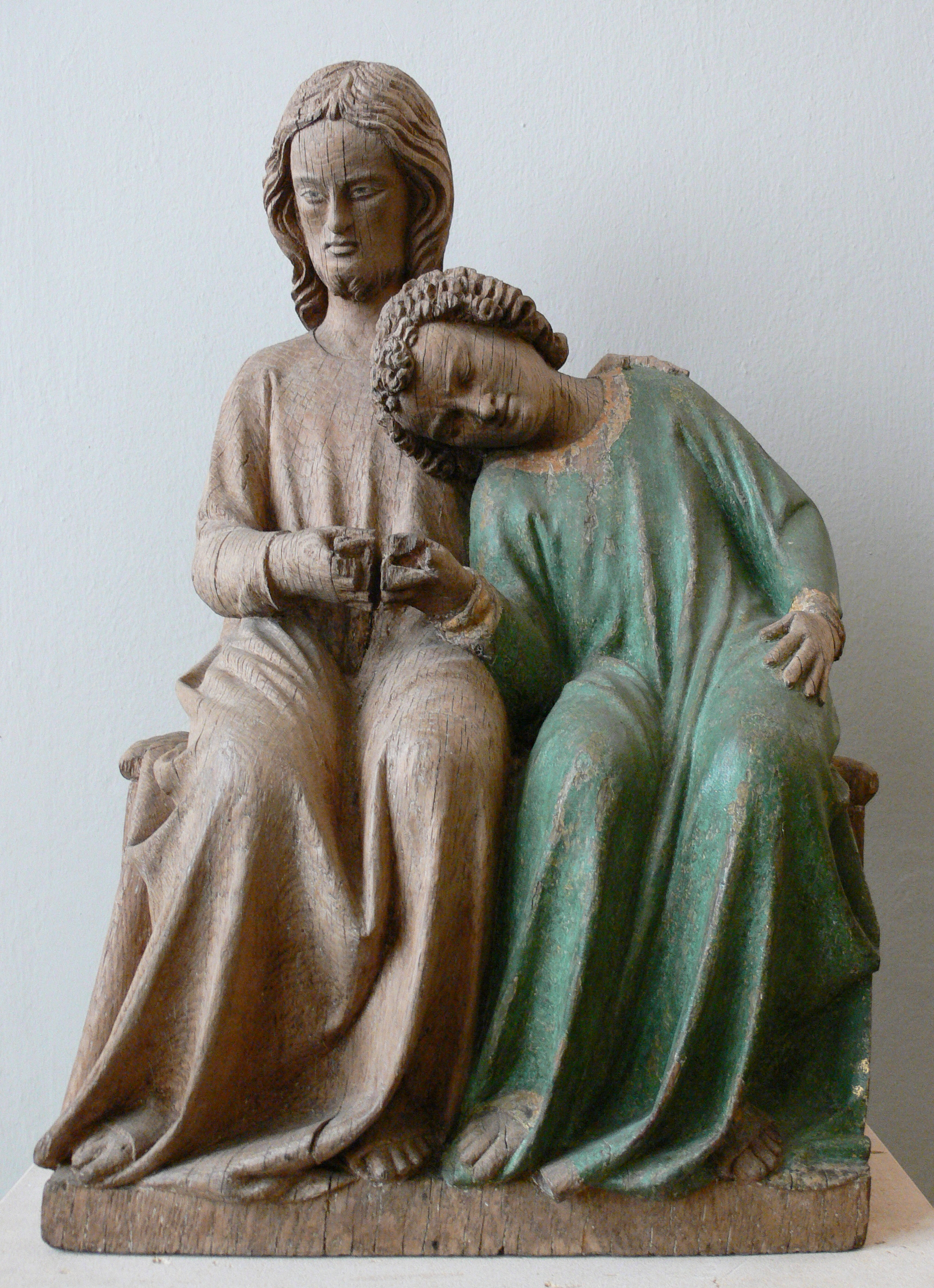 John the Apostle resting on the bosom of Christ, Swabia/Lake Constance, early 14th century; oakwood with little remains of original colouring, John's coat in a later coloring Bayerisches Nationalmuseum München, Inv. Nr. 65/38; Vermächtnis Dr. Franz Haniel 1965